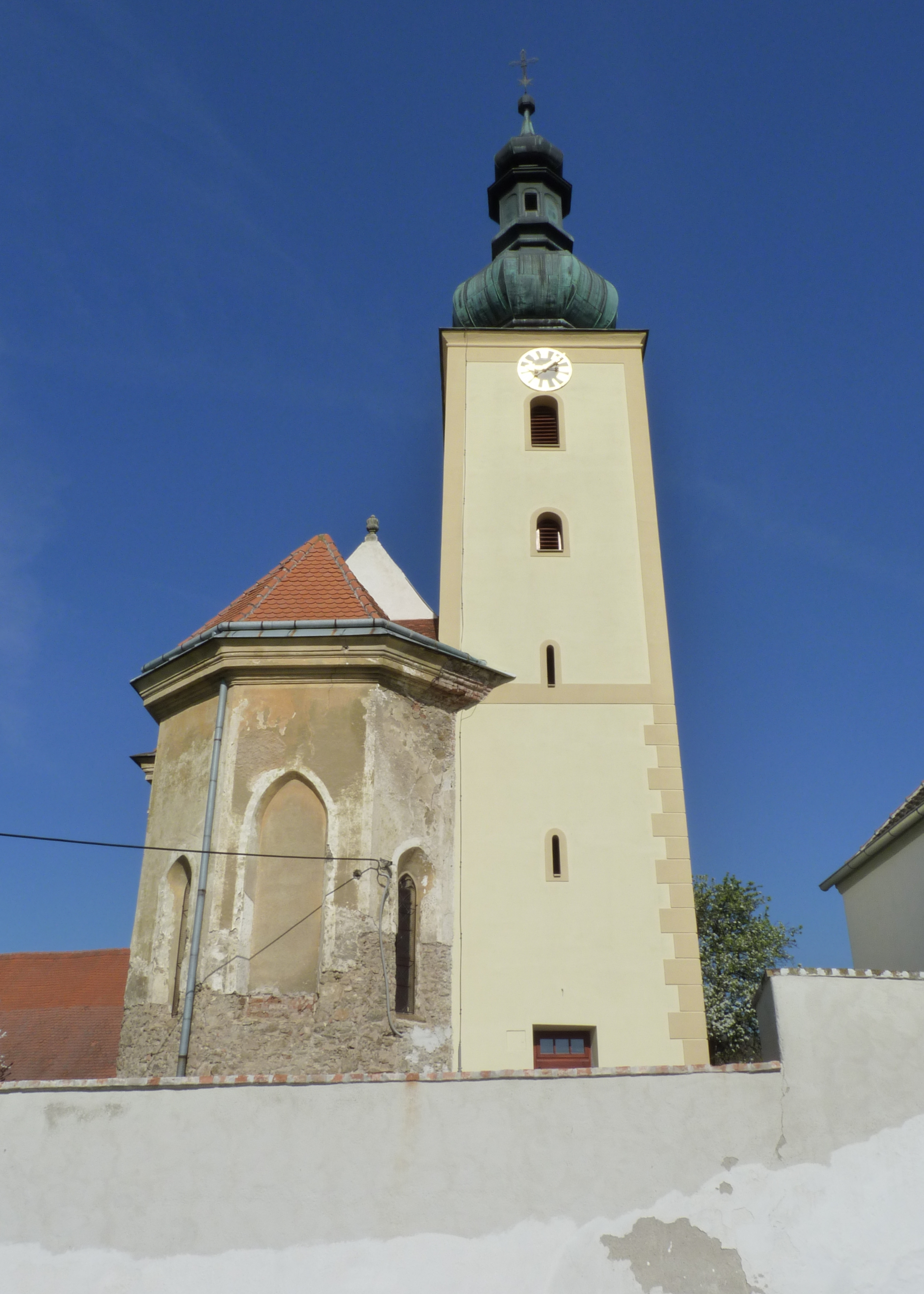 Church of Saint Sigismund in Popice (Znojmo). Znojmo District, South Moravian Region, Czech Republic Project: Chráněná území